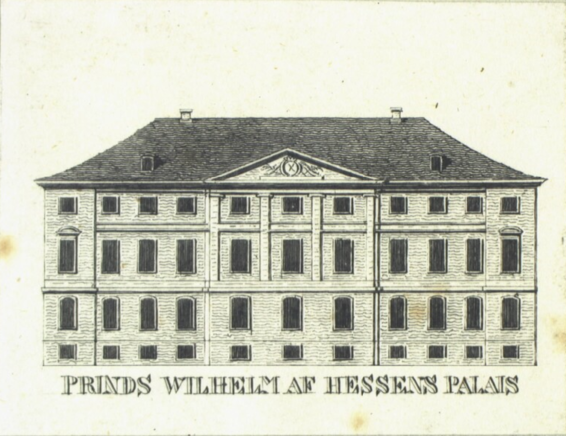 Sankt Annæ Plads, nr. 13. Prinds Wilhelm af Hessens Palais on Snakt Annæ Plads in Copenhagen, Denmark